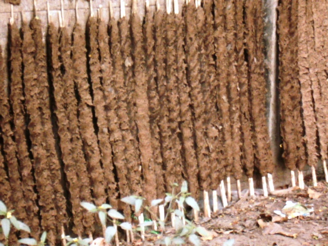 Photo of Ghunte (dungcake) on stick, Rajshai, Bangladesh